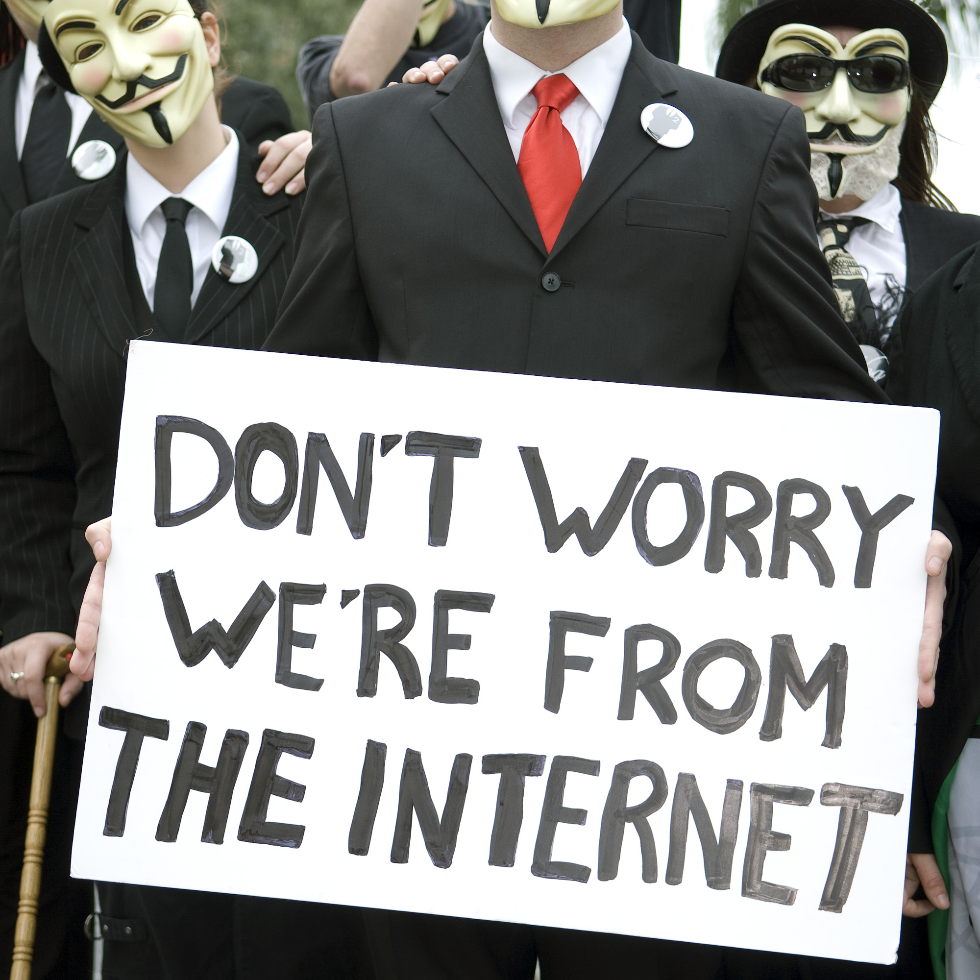 January 16th 2010 was the 24th consecutive month of peaceful global protests againt the scientology cult. Clearwater Anons went with a 2nd "Anoniversary" theme to celebrate the 2nd anniversary of the start of Project Chanology. It was two years ago this month that the now famous Tom Cruise video was leaked on the internet, which the scientology cult then tried to suppress. As a result critical thinkers around the globe did their homework and rose up as one to say "DO NOT WANT!" Within a month that online activism had evolved to include peaceful protests outside scientology centers around the world. All faces of those unmasked are blurred to protect them from the cult's "Fair Game" policy of harassing it's critics. These are brave people of all ages and walks of life, standing shoulder to shoulder with ex-Scientologists to bring the truth TO YOU. But don't take my word for it, educate yourself about what TIME Magazine called "The Cult of Greed and Power"